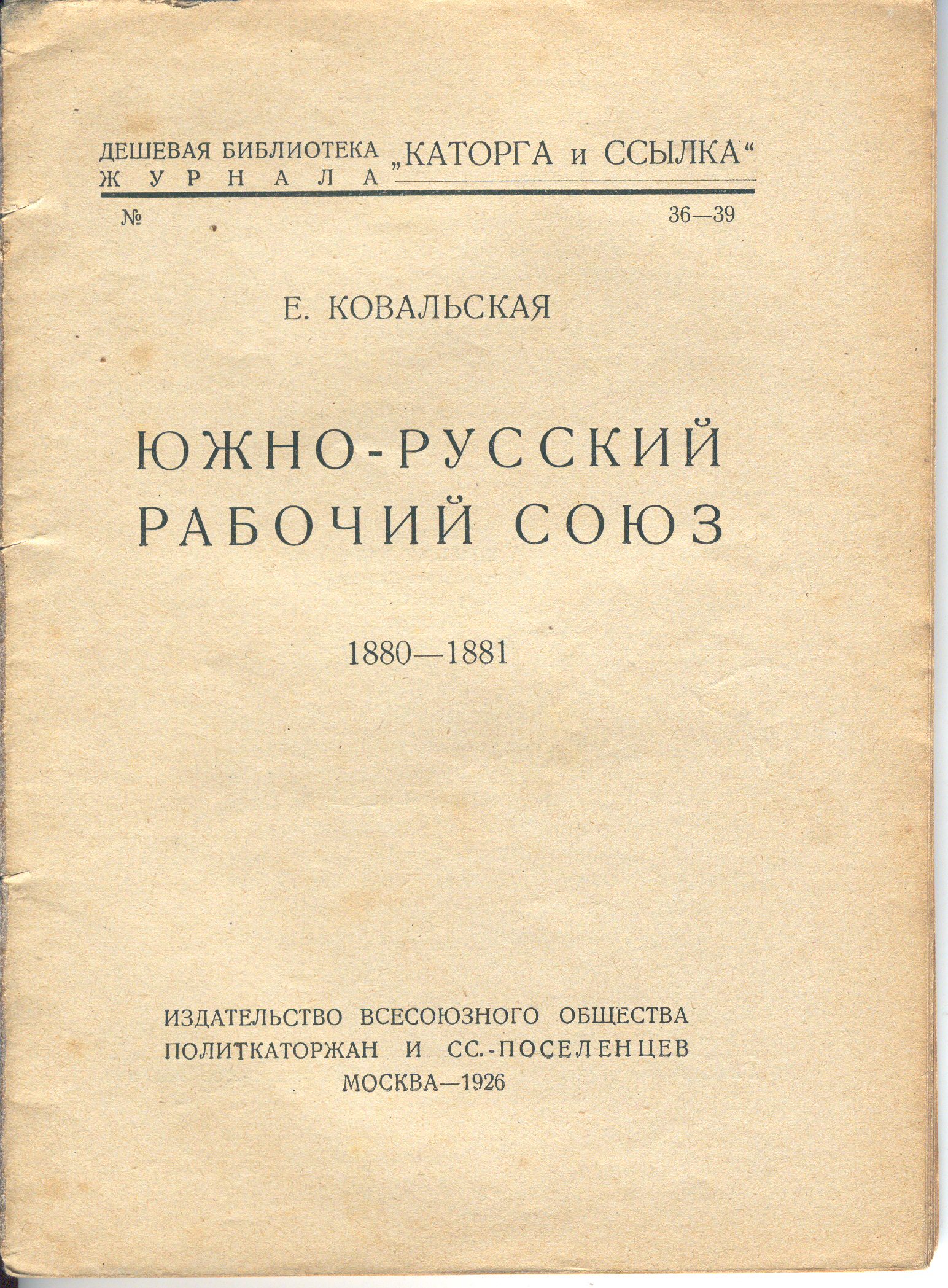 "South-Russian Labour Union" - the book of memoirs by E. Kovalska